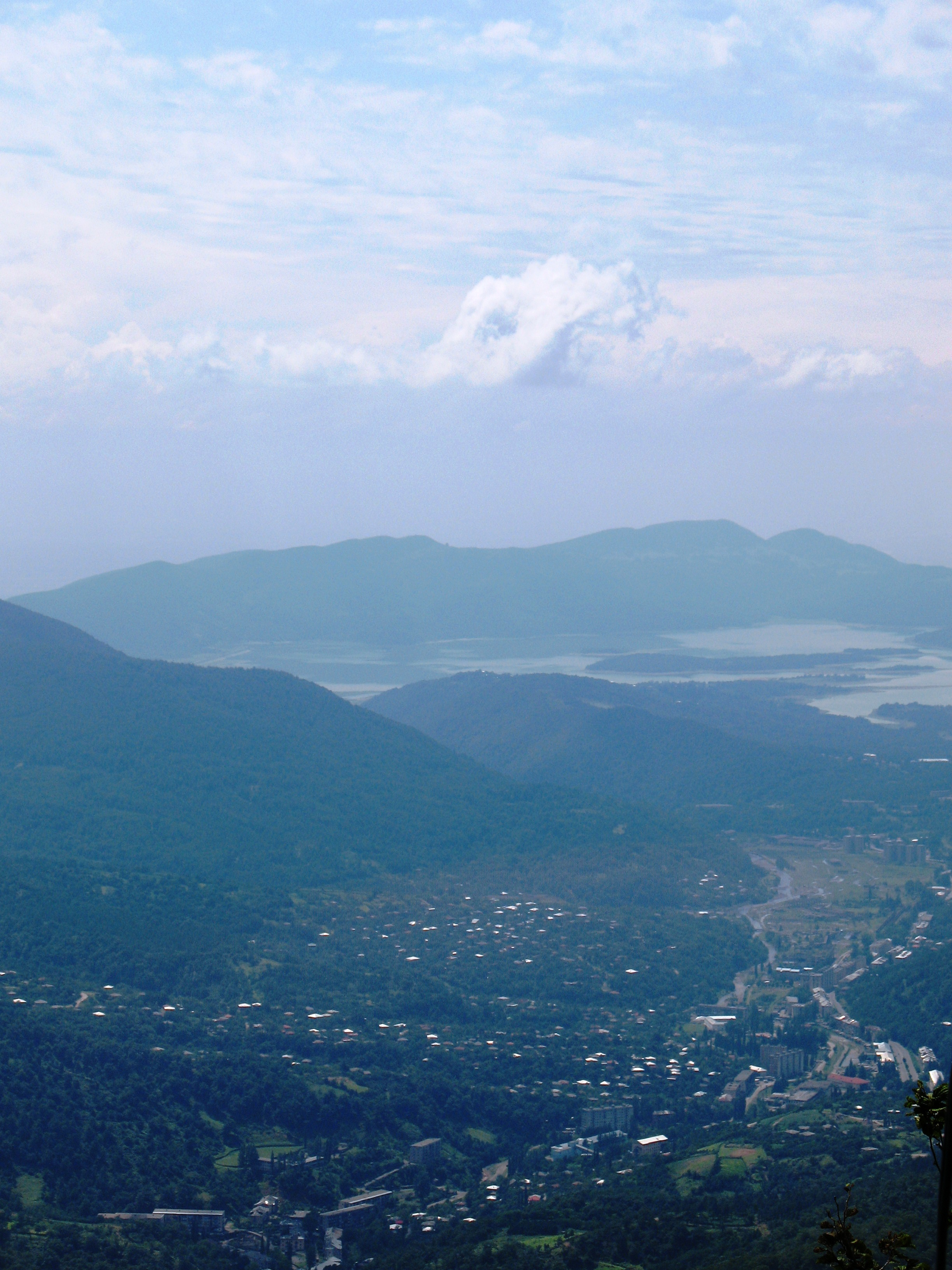 view to Tkibuli